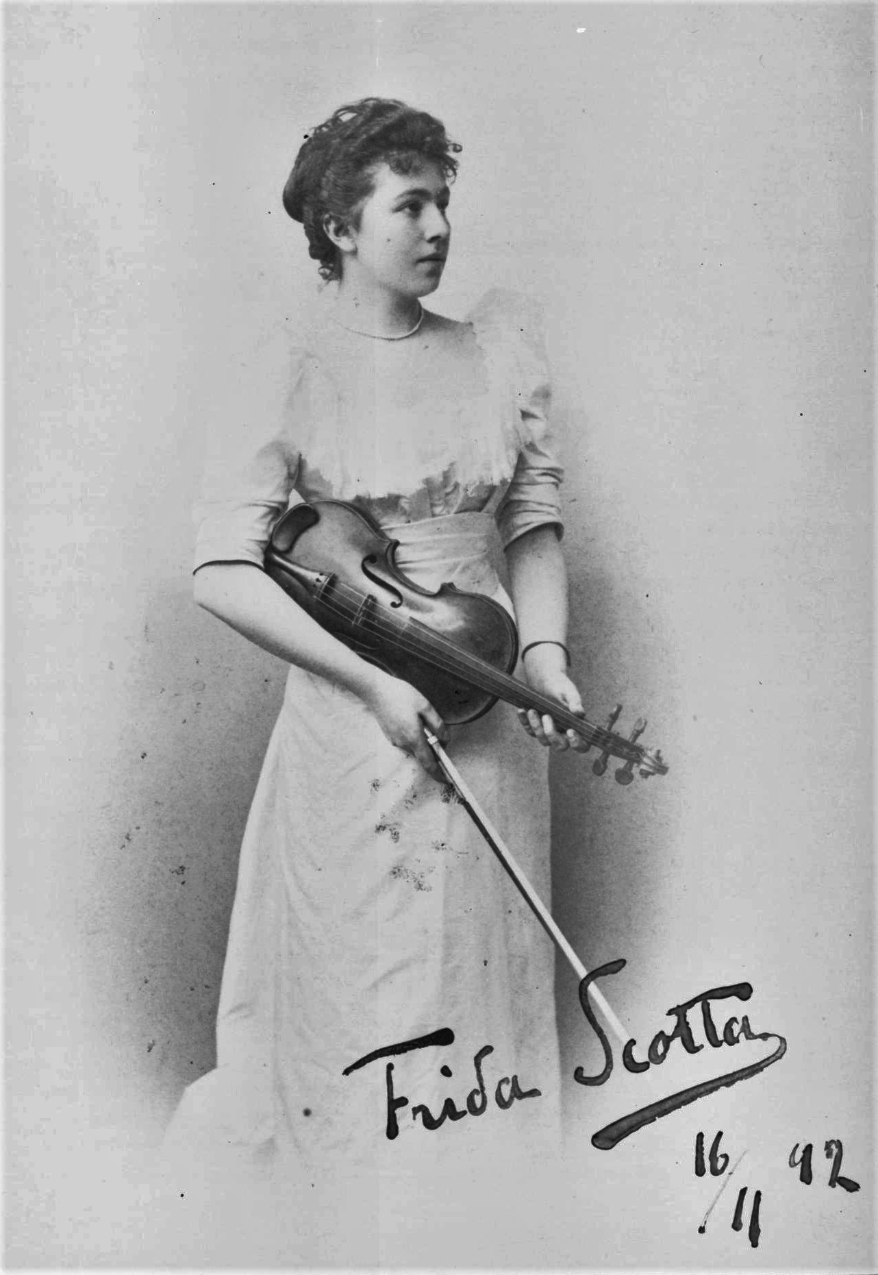 Danish viollinist Frida Scotta in 1892